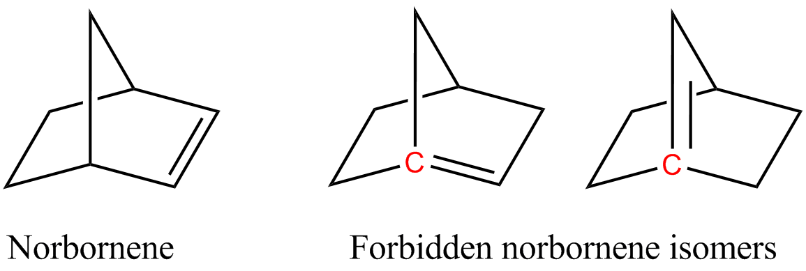 Higher resolution structures of some norbornene isomers to illustrate Bredt's rule article. Drawn with ChemDraw.